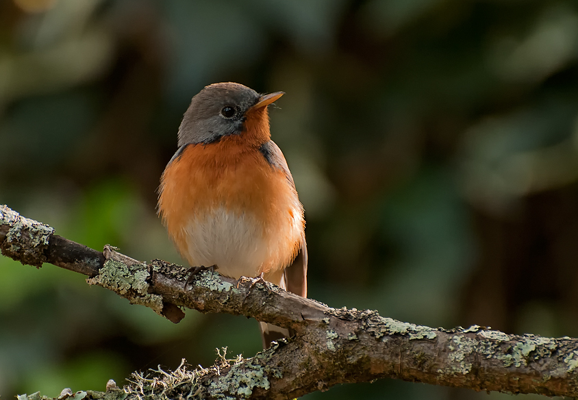 Kashmiri Flycatcher, Ooty,Tamil Nadu India